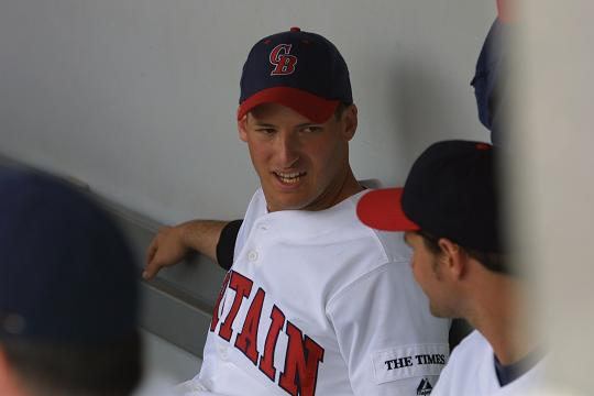 Self-created at GB baseball international